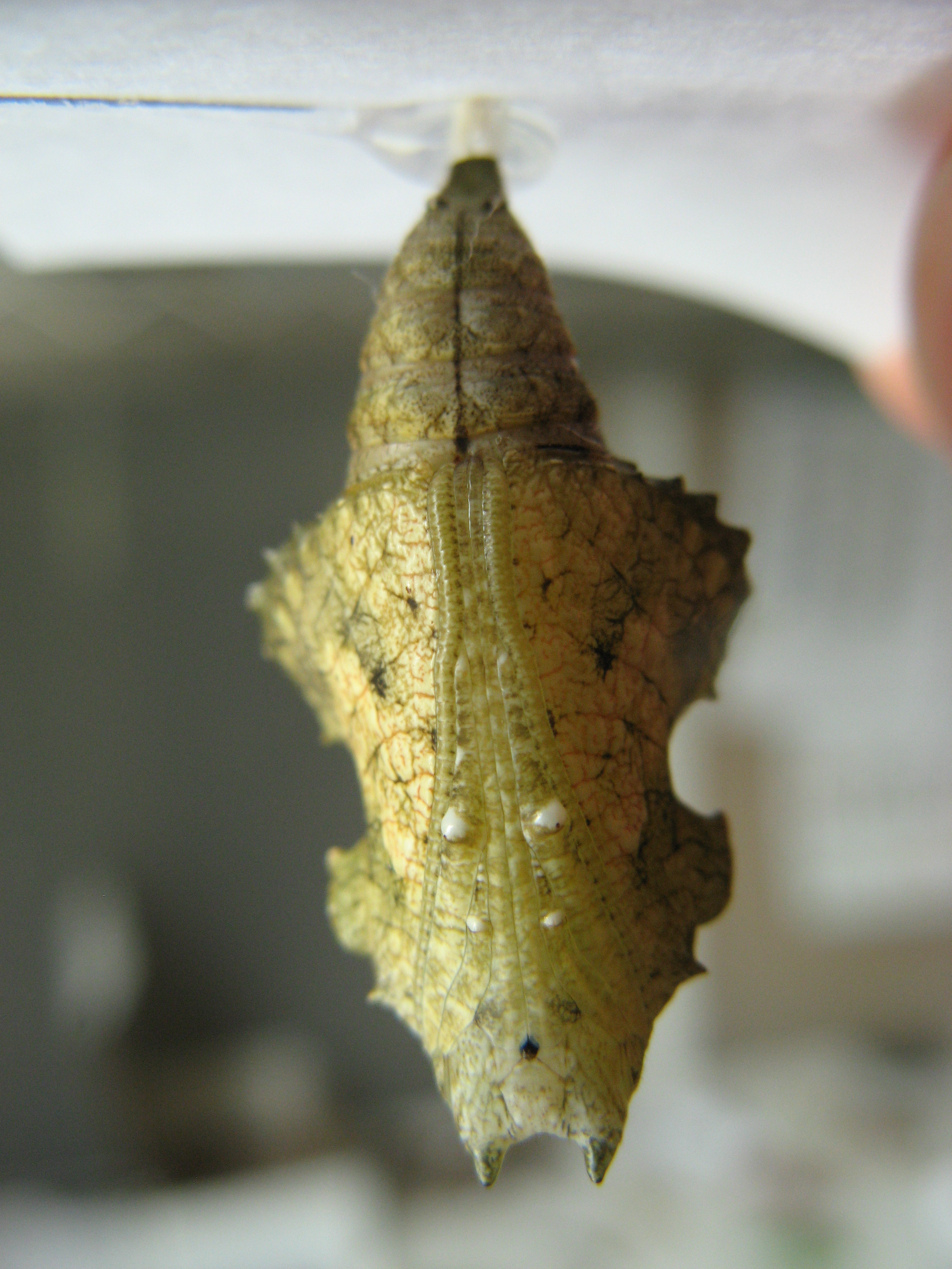 Biblis hyperia chrysalis, dorsal view.